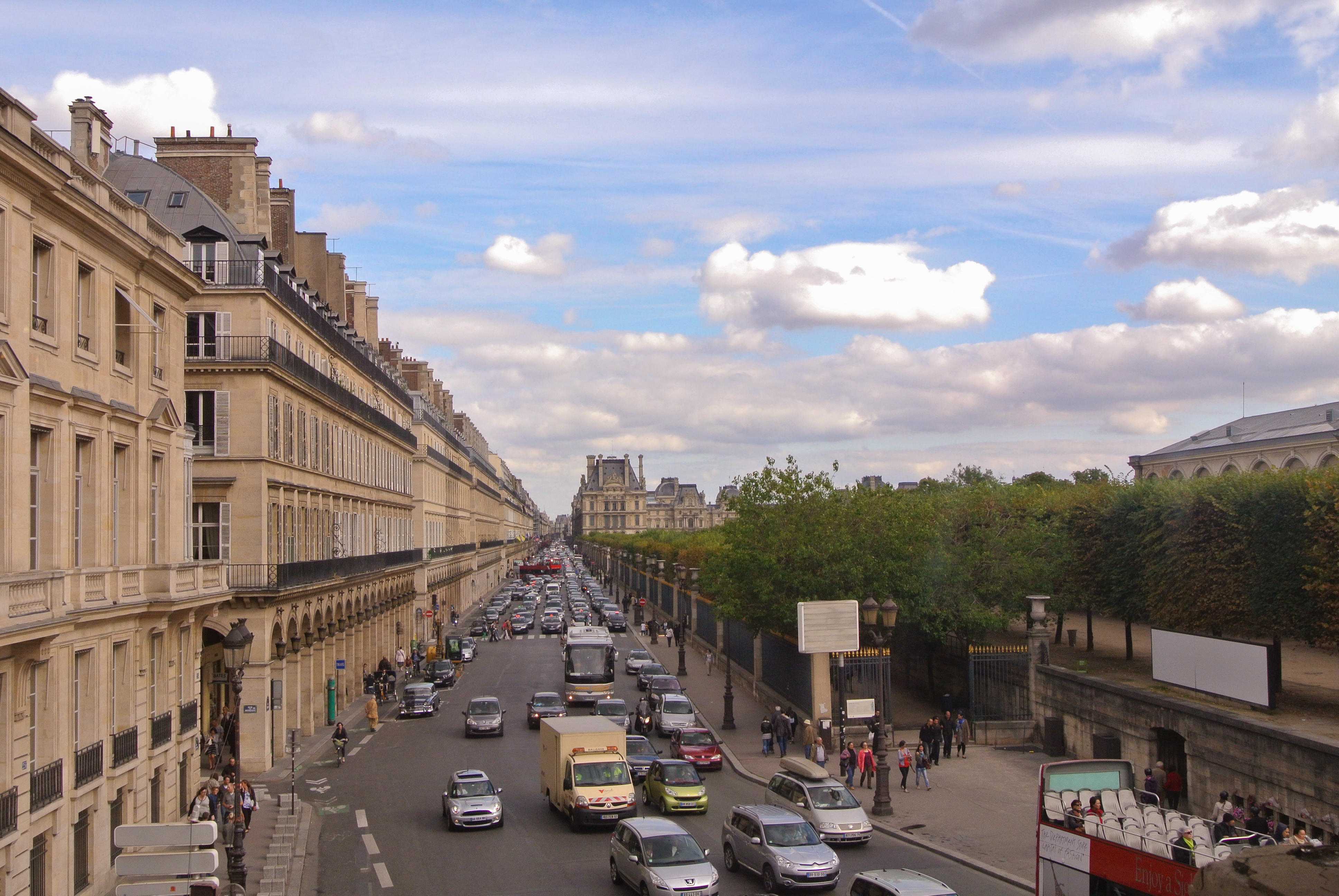 Rivoli Street, Paris. Picture taken from the "hôtel de la marine"